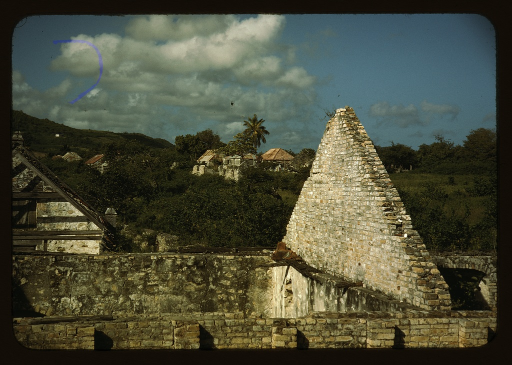 Title: Ruins of an old sugar mill and plantation house, vicinity of Christiansted, Saint Croix, Virgin Islands